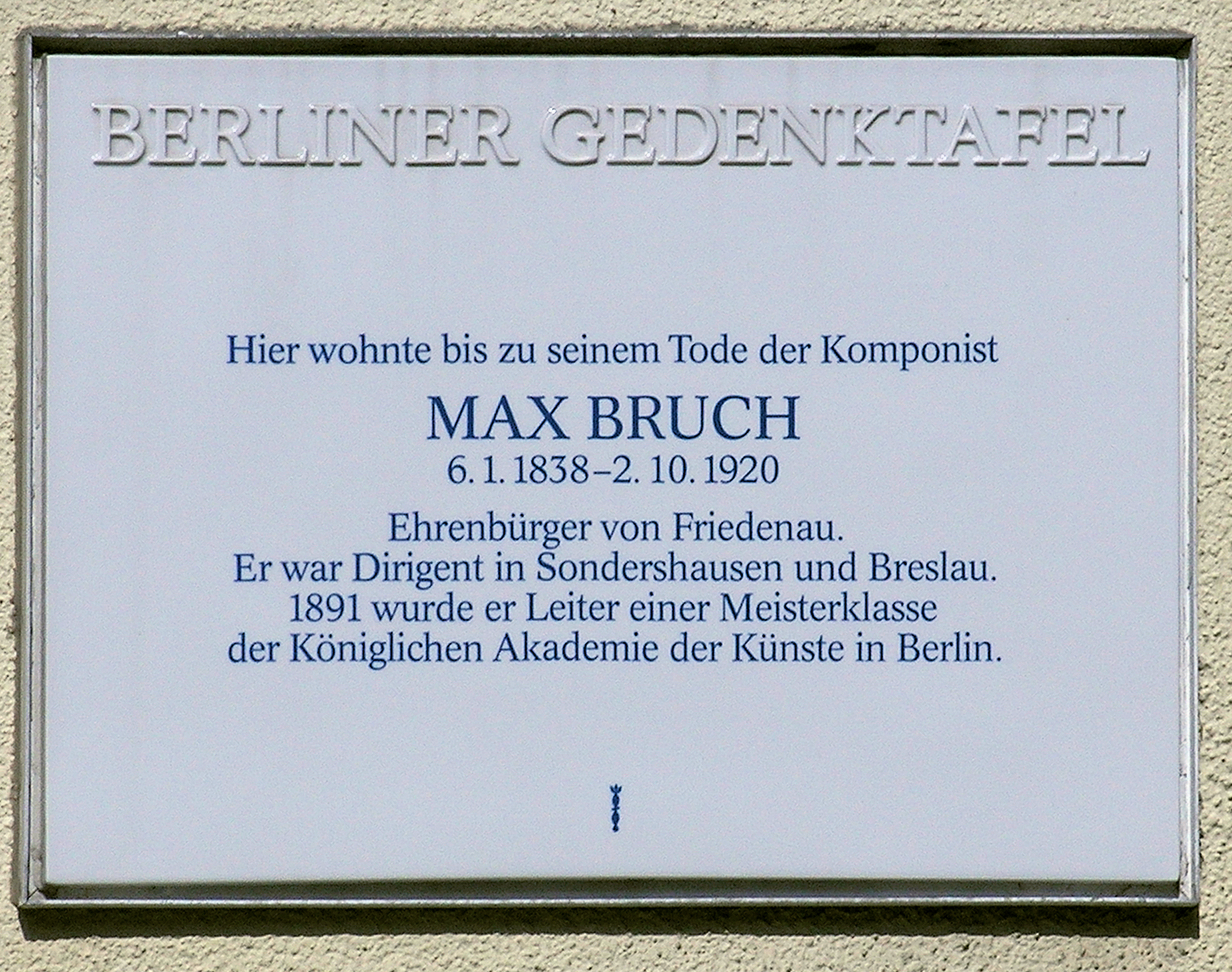 Berlin memorial plaque, Max Bruch, Albestraße 3, Berlin-Friedenau, Germany